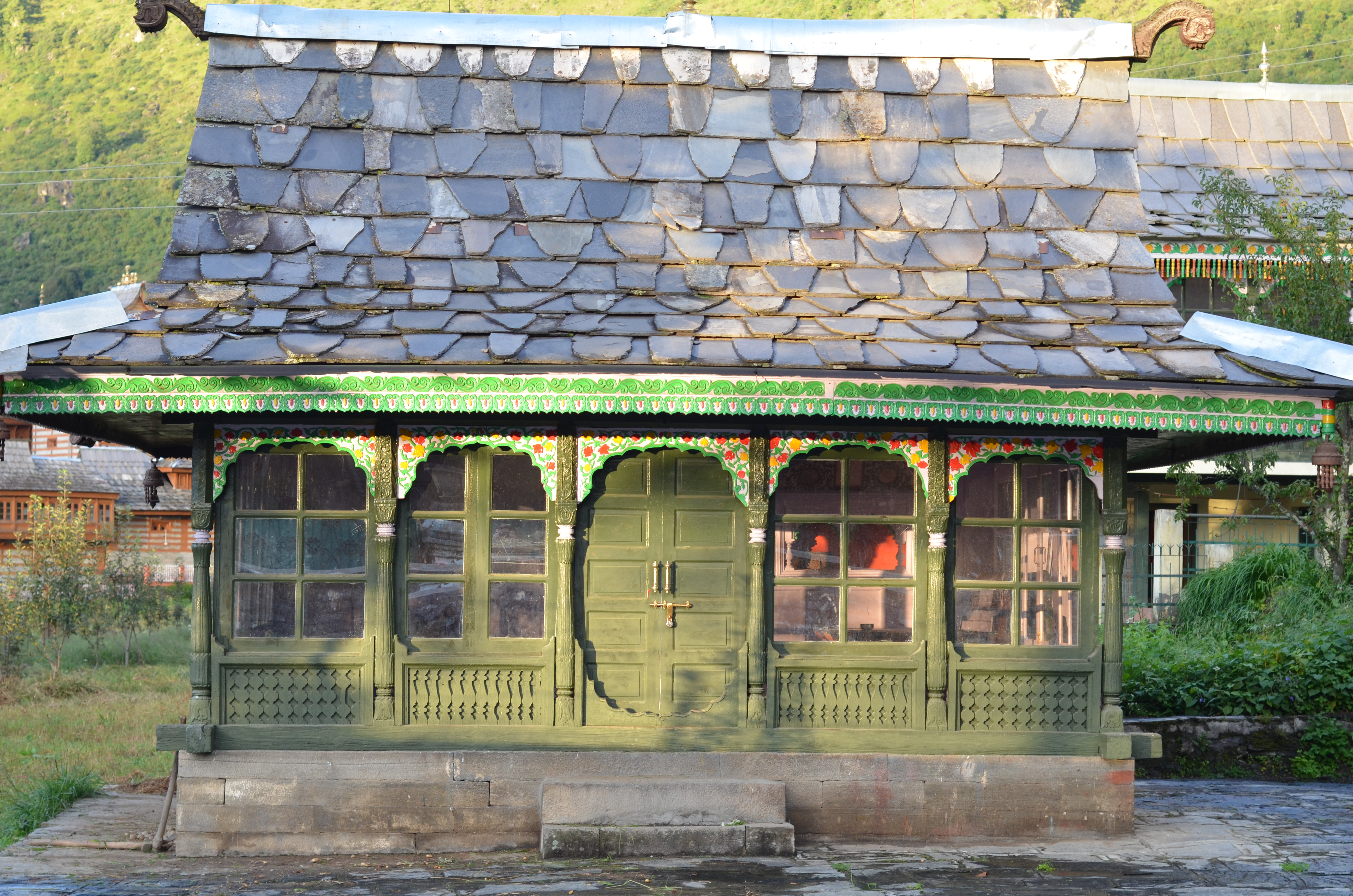 The place where idols of Rama, Lakshman and Sita are kept during 3 days long Dusherra Festival